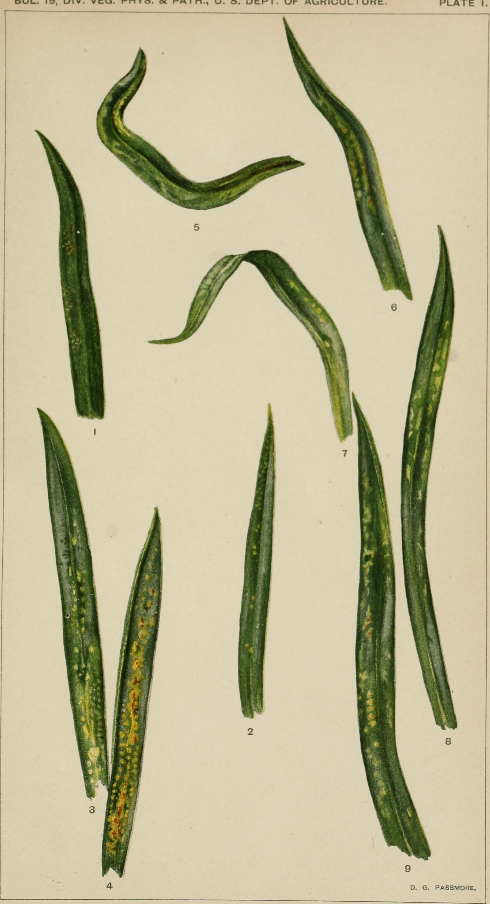 Title: Bulletin Year: 1896-1901 (1890s) Authors: United States. Division of Vegetable Physiology and Pathology Subjects: Plant diseases -- United States Publisher: Washington : G. P. O. Text Appearing Before Image: BUL. 19, DIV. VEG. PHYS. & PATH., U. 8. DEPT. OF AGRICULTURE. PLATE Text Appearing After Image: SPOTS PRODUCED BY APHIDES AND THRIPS. A.H.,ci. .H,,. I.iii,. Kalliiiio